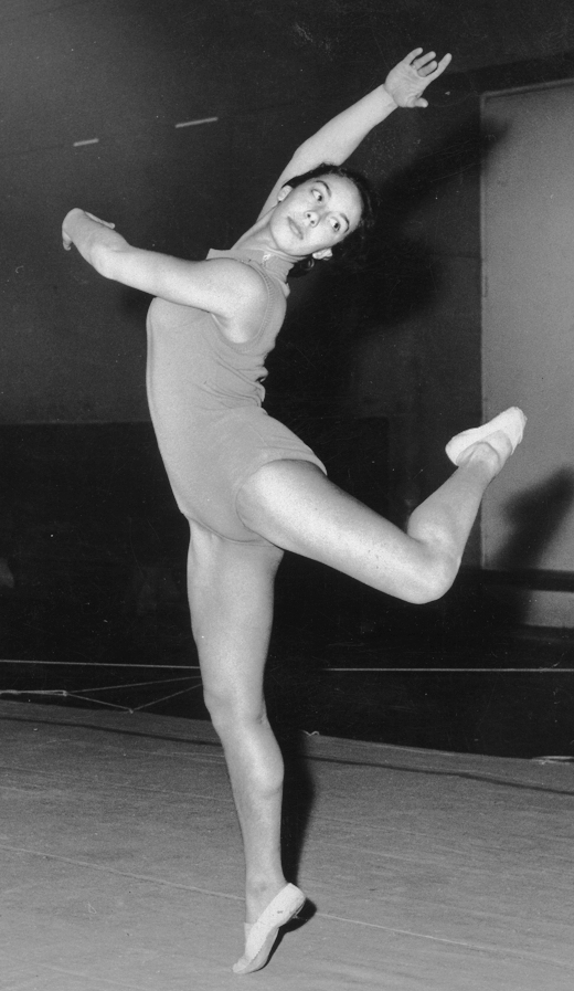 Elena Wilma Lagorara at the Rome Olympics